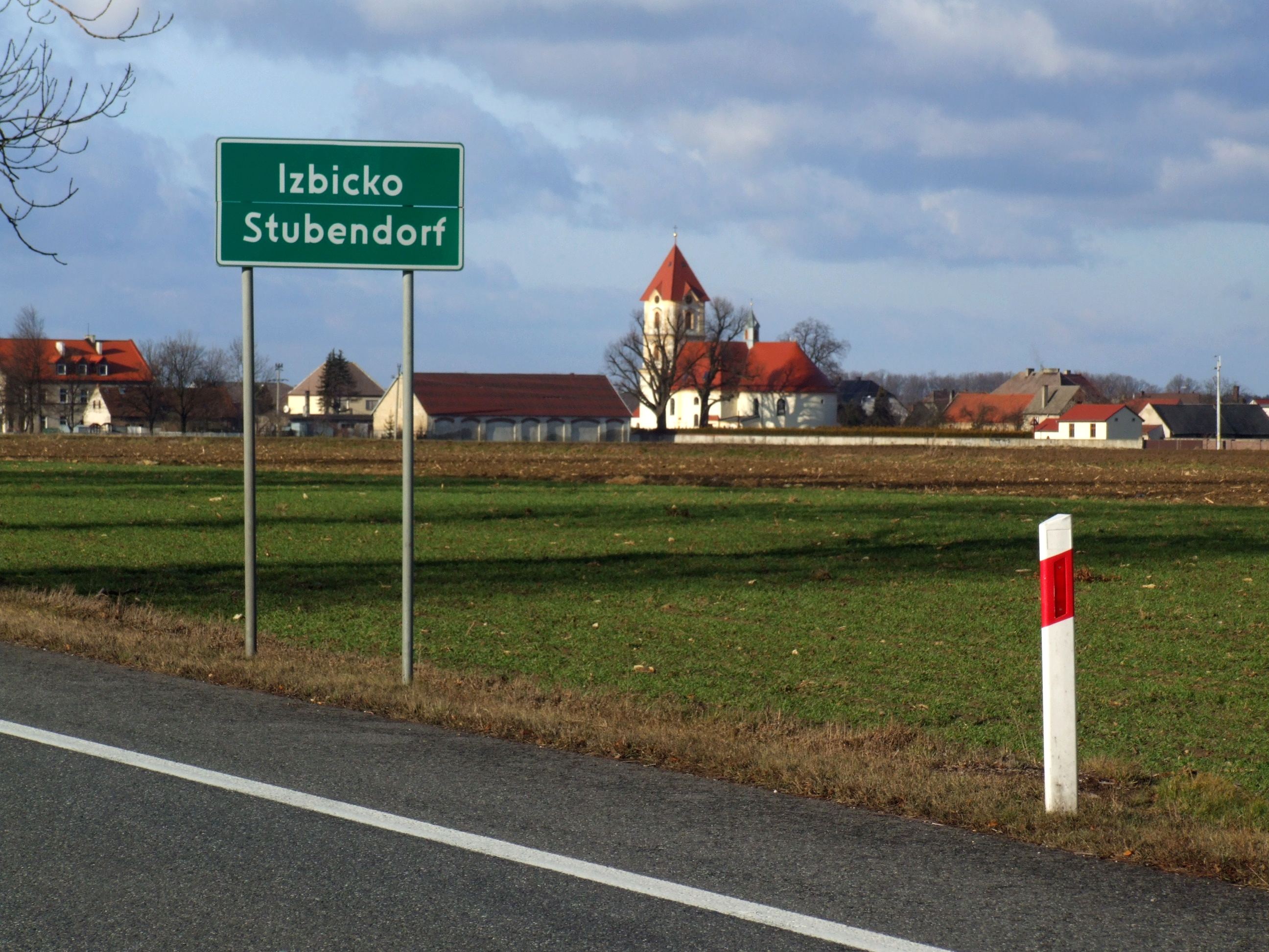 Bilingual polish-german village boundary Izbicko/Stubendorf, Upper Silesia